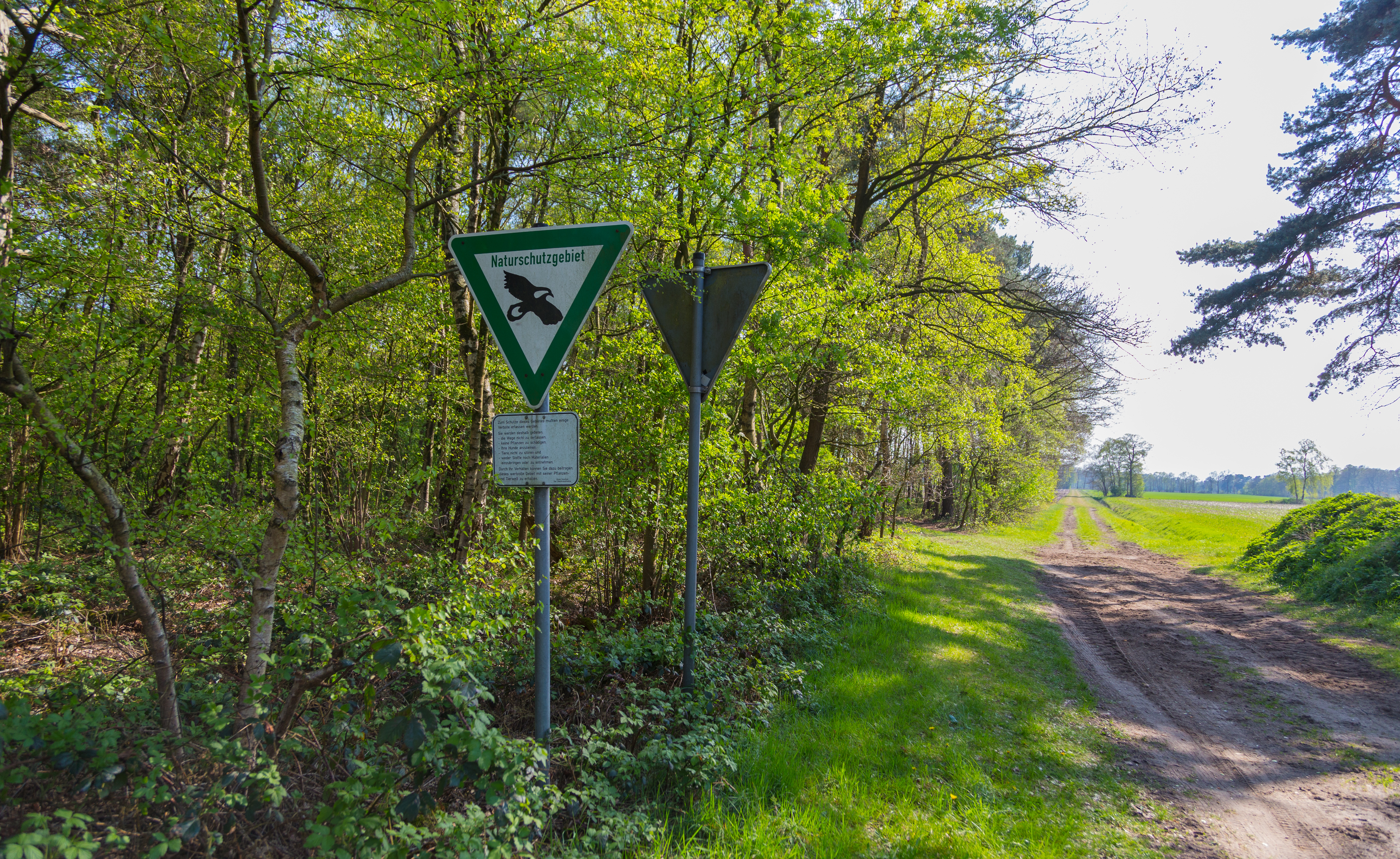 At the edge of nature reserve (Naturschutzgebiet) „In den Hiärken“ in Tecklenburg-Brochterbeck, Kreis Steinfurt, North Rhine-Westphalia, Germany.